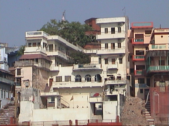 See Varanasi Development Cooperation Handbook/Stories/Responsible Development - Varanasi The Varanasi Heritage Dossier Kautilya Society Play media Vrinda Dar - How we got involved in heritage protection of Varanasi